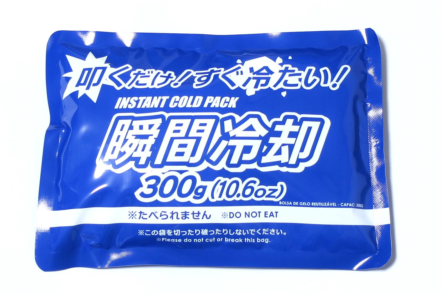 Daiso instant cold pack 300g (10.6oz).